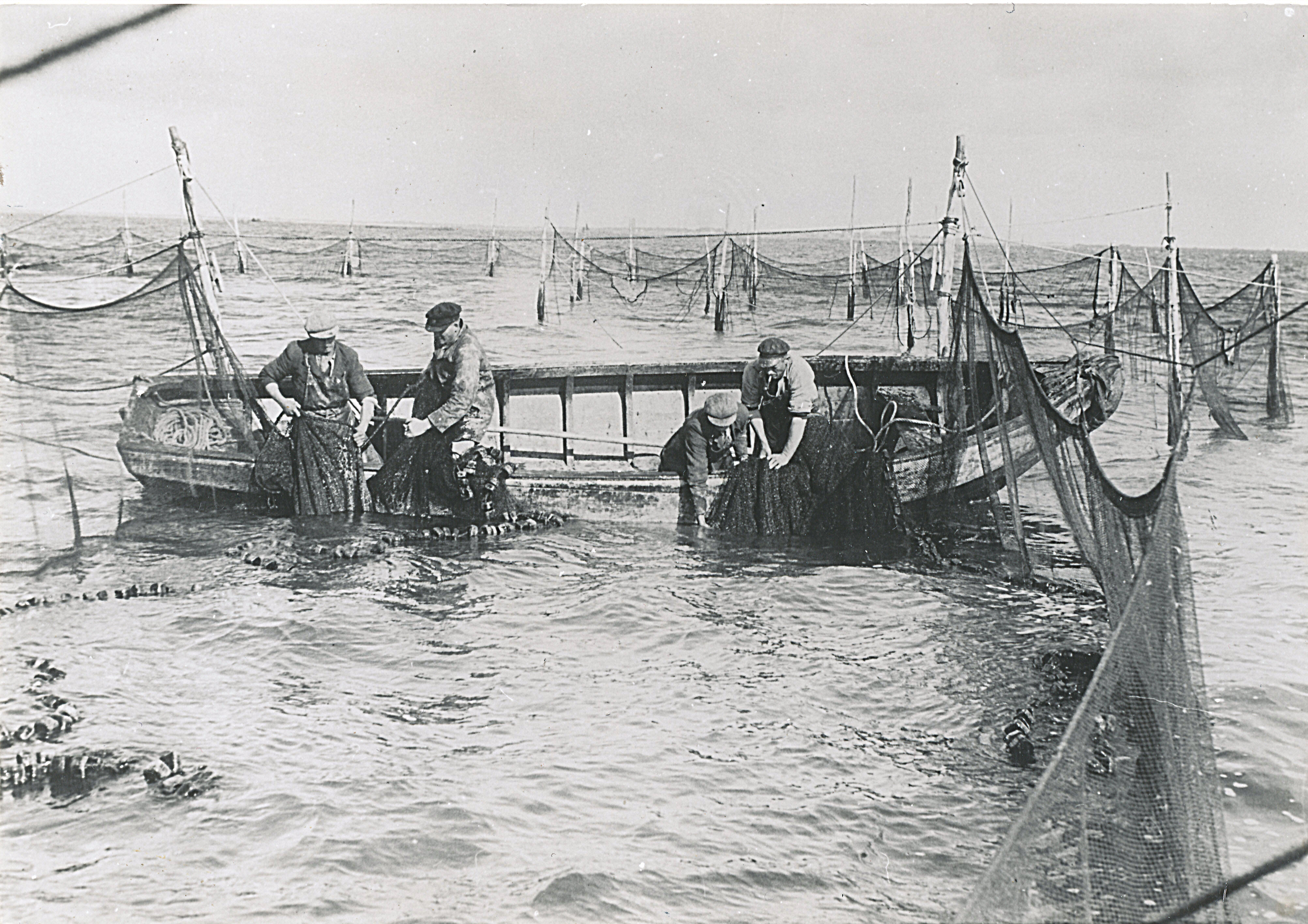 Fishermen collecting the anchovy